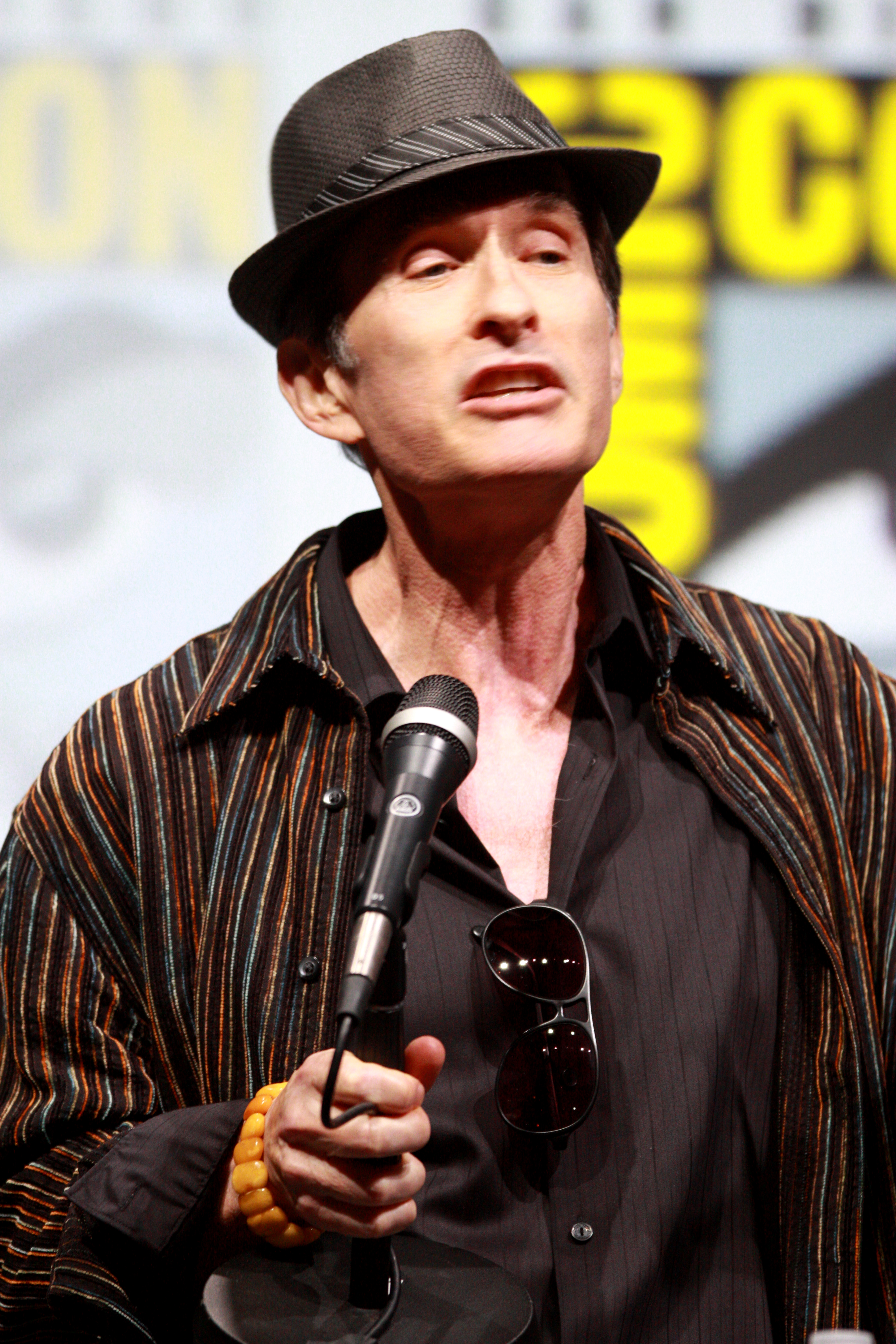 David Twohy speaking at the 2013 San Diego Comic Con International, for "Riddick", at the San Diego Convention Center in San Diego, California.